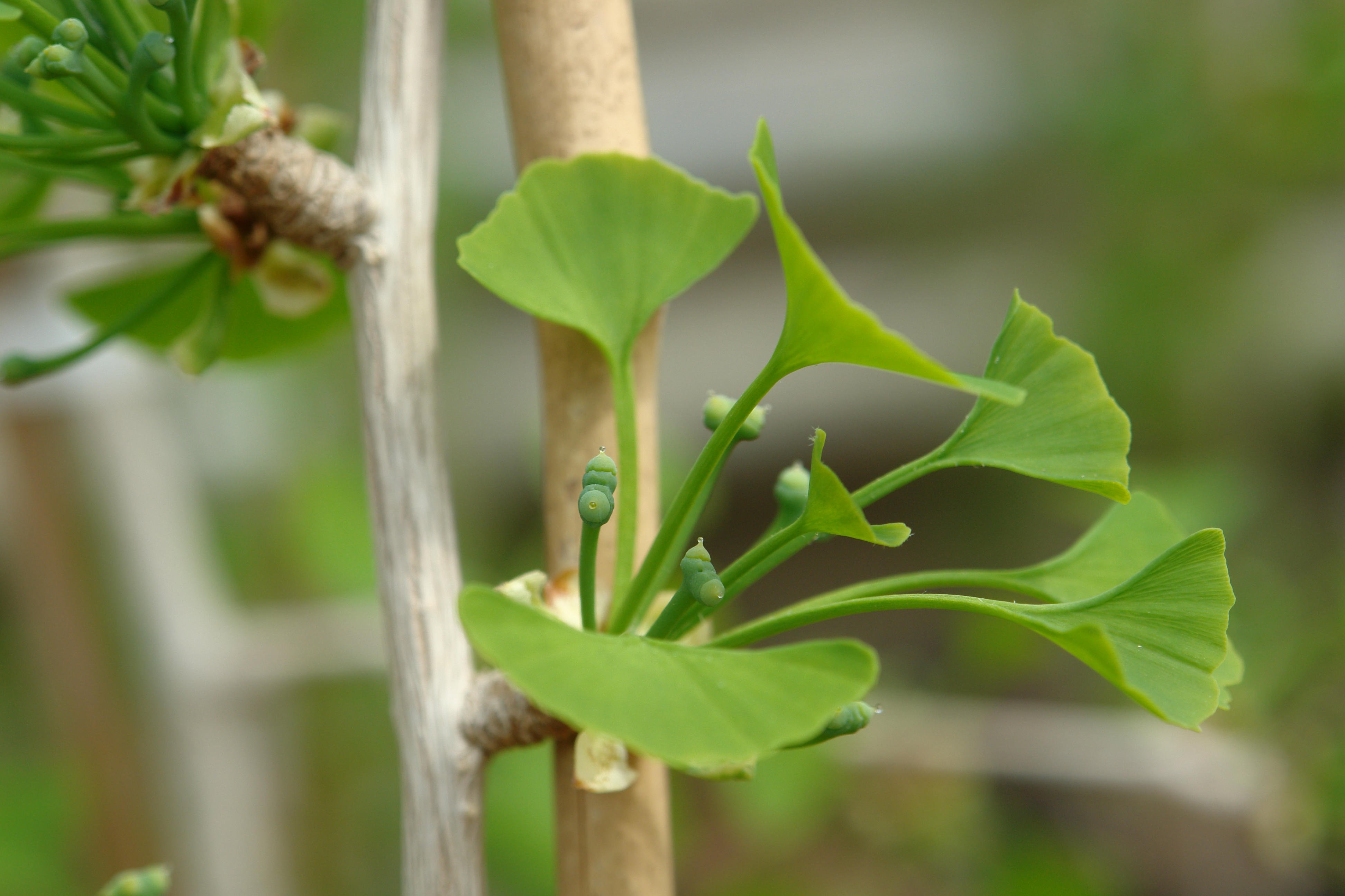 Maidenhair tree - female flower